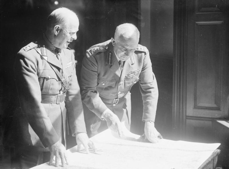 Photograph of Field Marshal Sir Edmund Ironside and Lord Gort studying a map in the War Office, London.